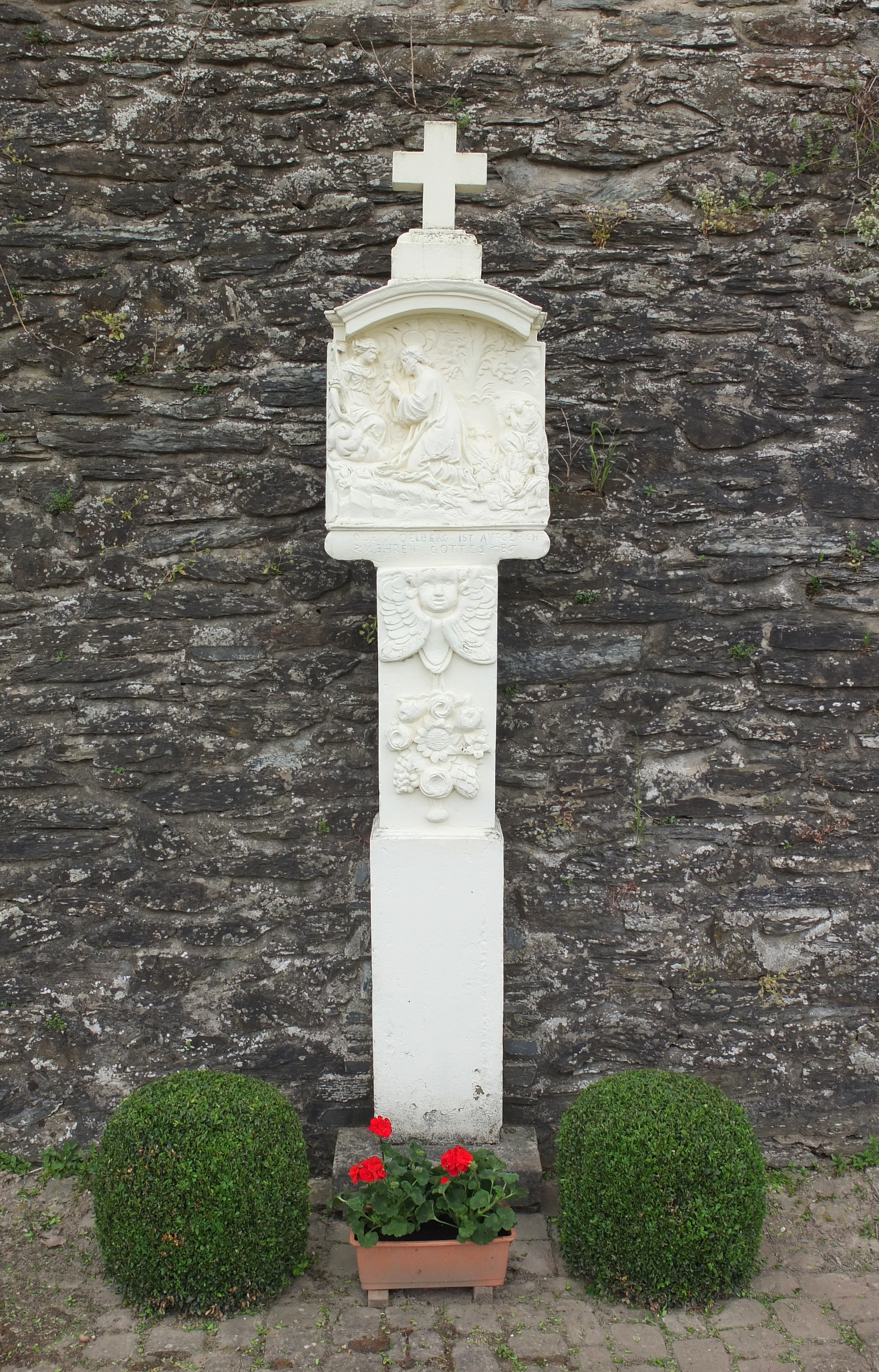 Wayside shrine (1686) near Ensch, Germany. This is a photograph of an architectural monument.It is on the list of cultural monuments of Ensch